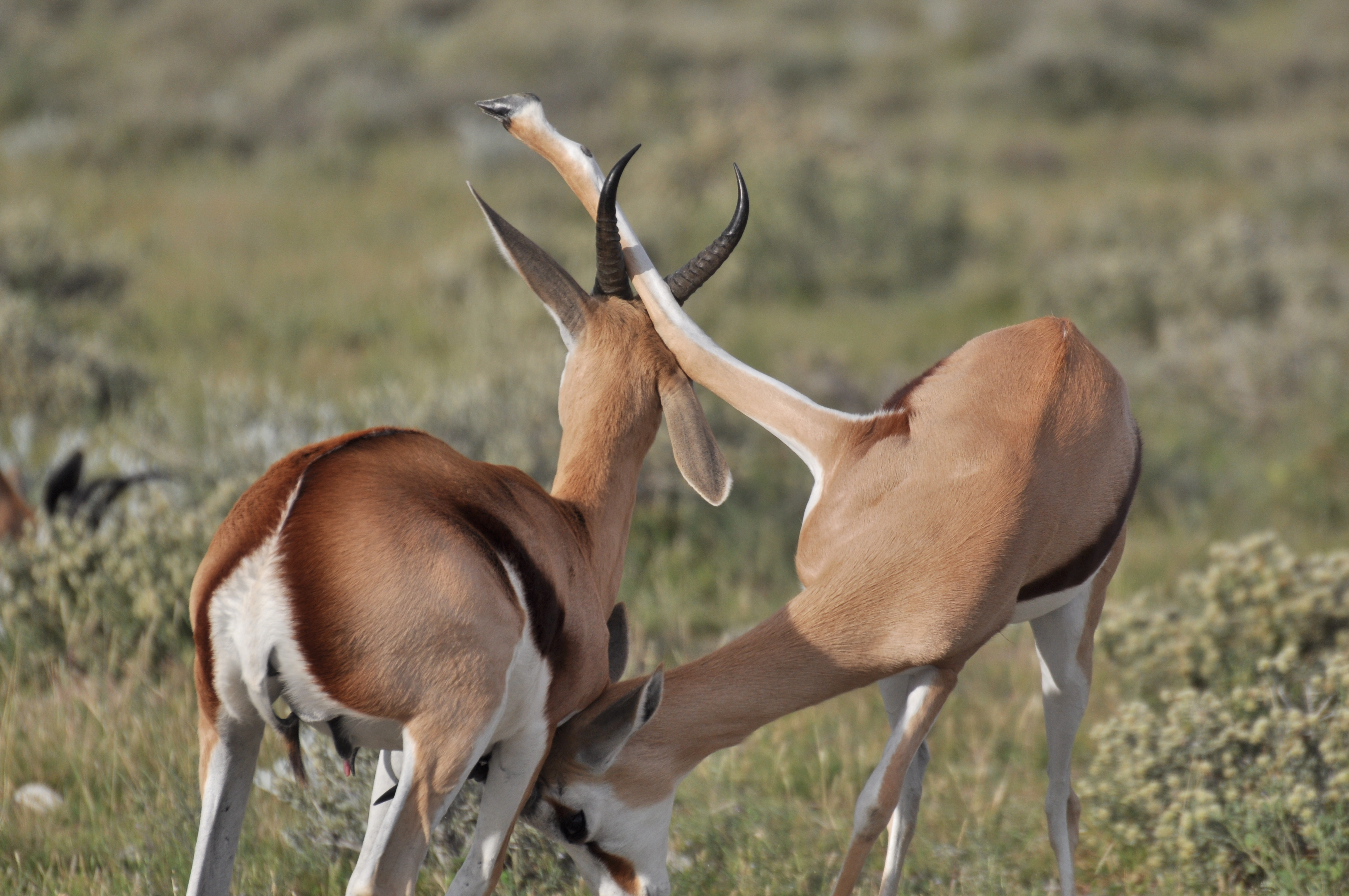 Two springboks fighting in Namibia.